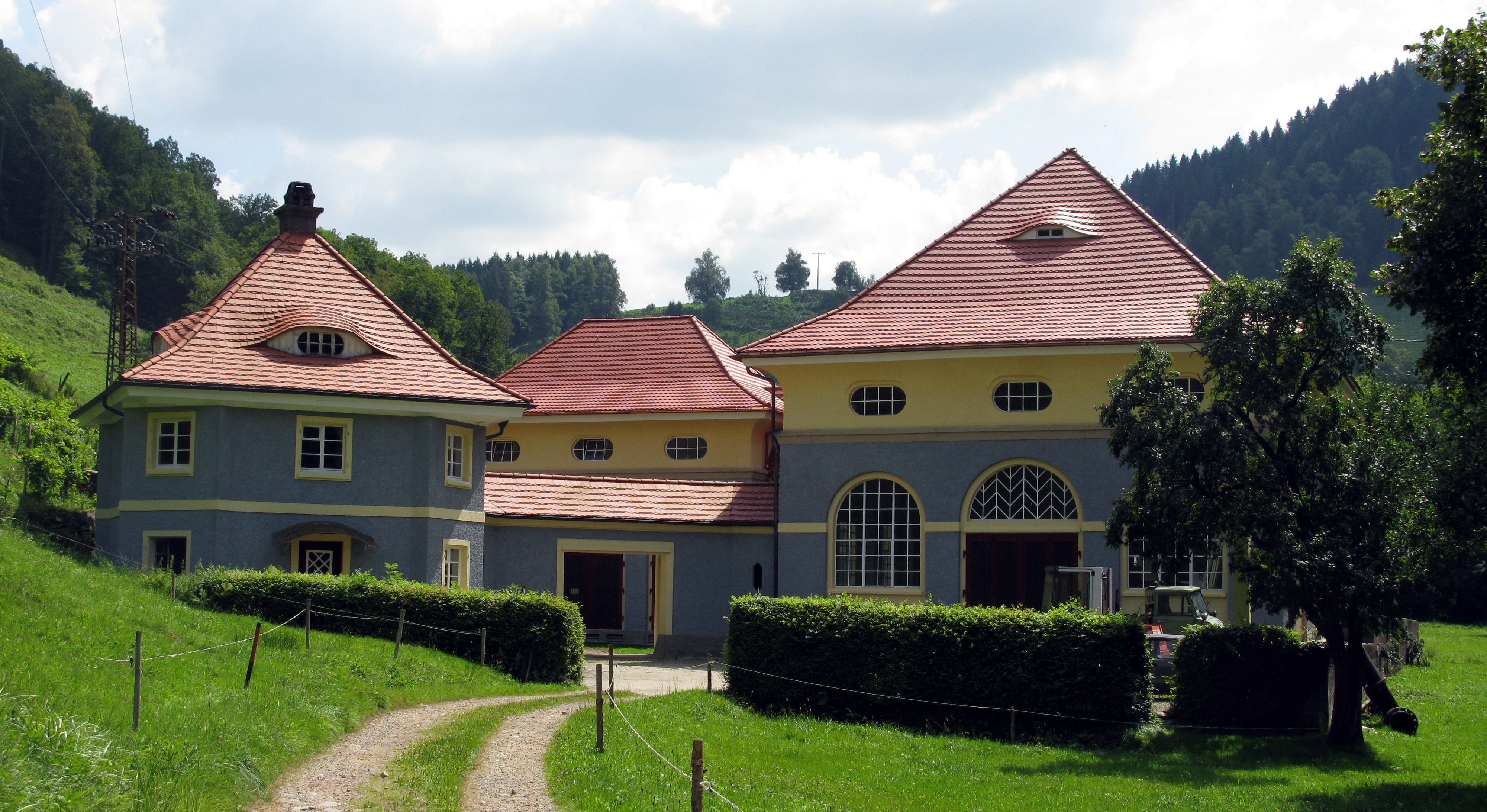 Power station at the Zweribach in the valley of Simonswald